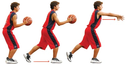 basketball